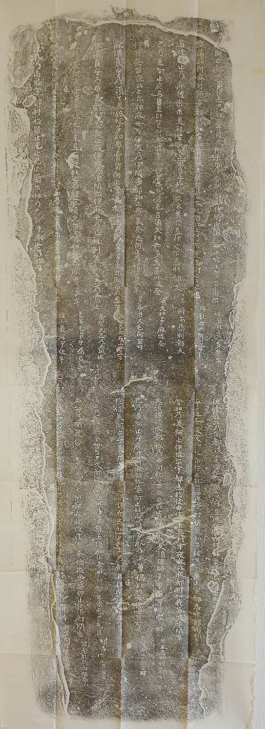 Rubbing of engraved inscription on a rock stele, total: Buddha footprint poems STELE in Yakushiji-temple, Nara, Japan. About, ACE 8th century